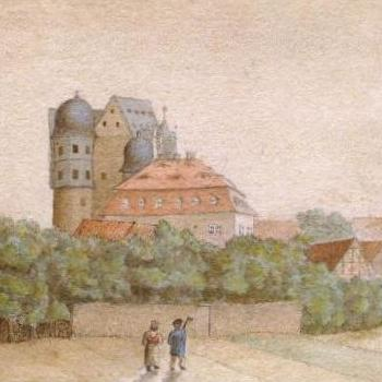 Castle Heringen/Helme (~1820)